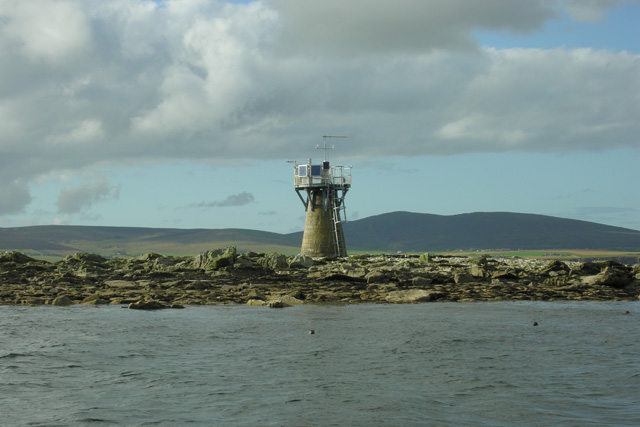 Navigation Light, Barrel of Butter, Scapa Flow. Common and Atlantic Grey seals can be spotted on this rocky skerry.